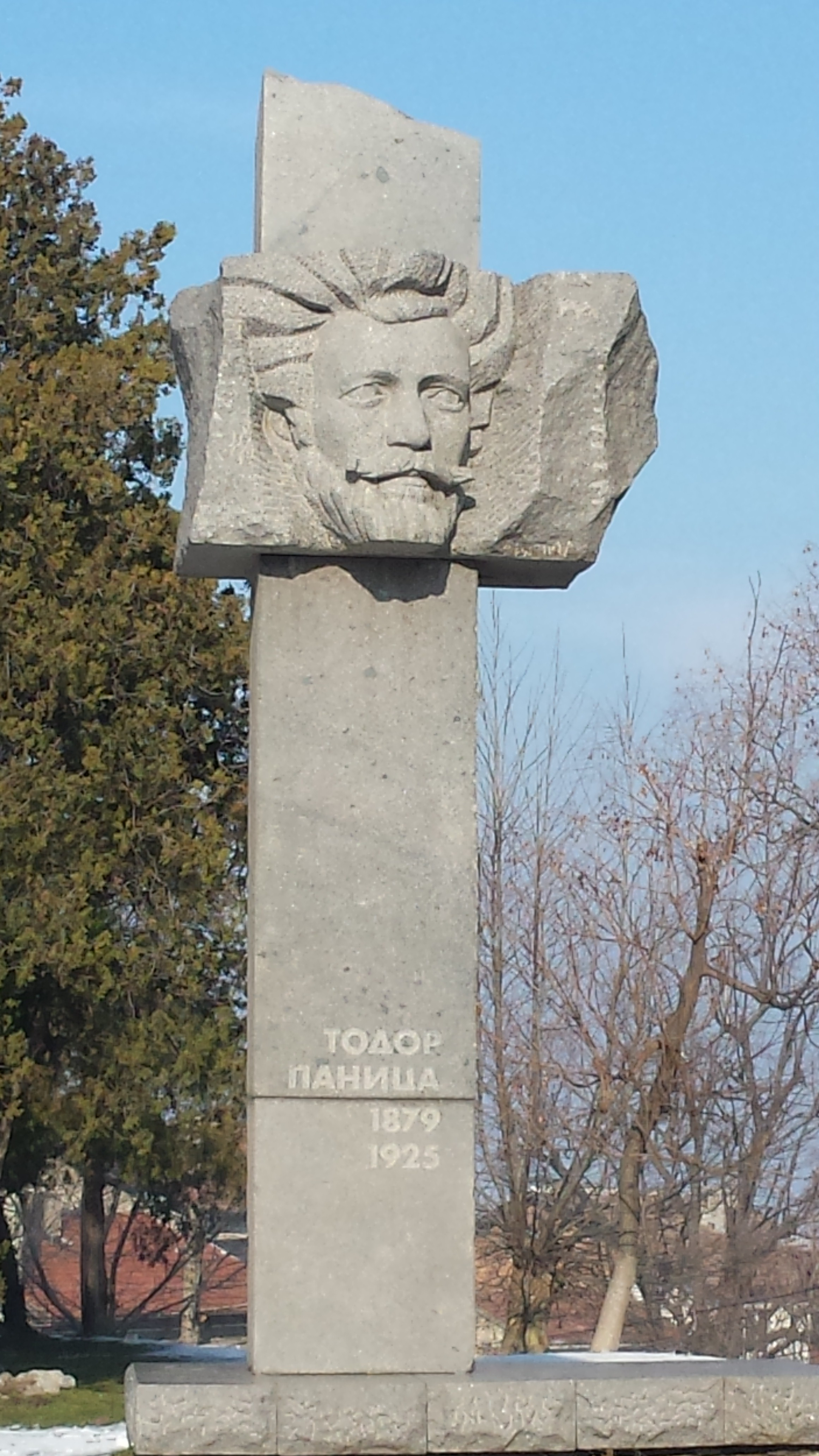 Оряхово, България